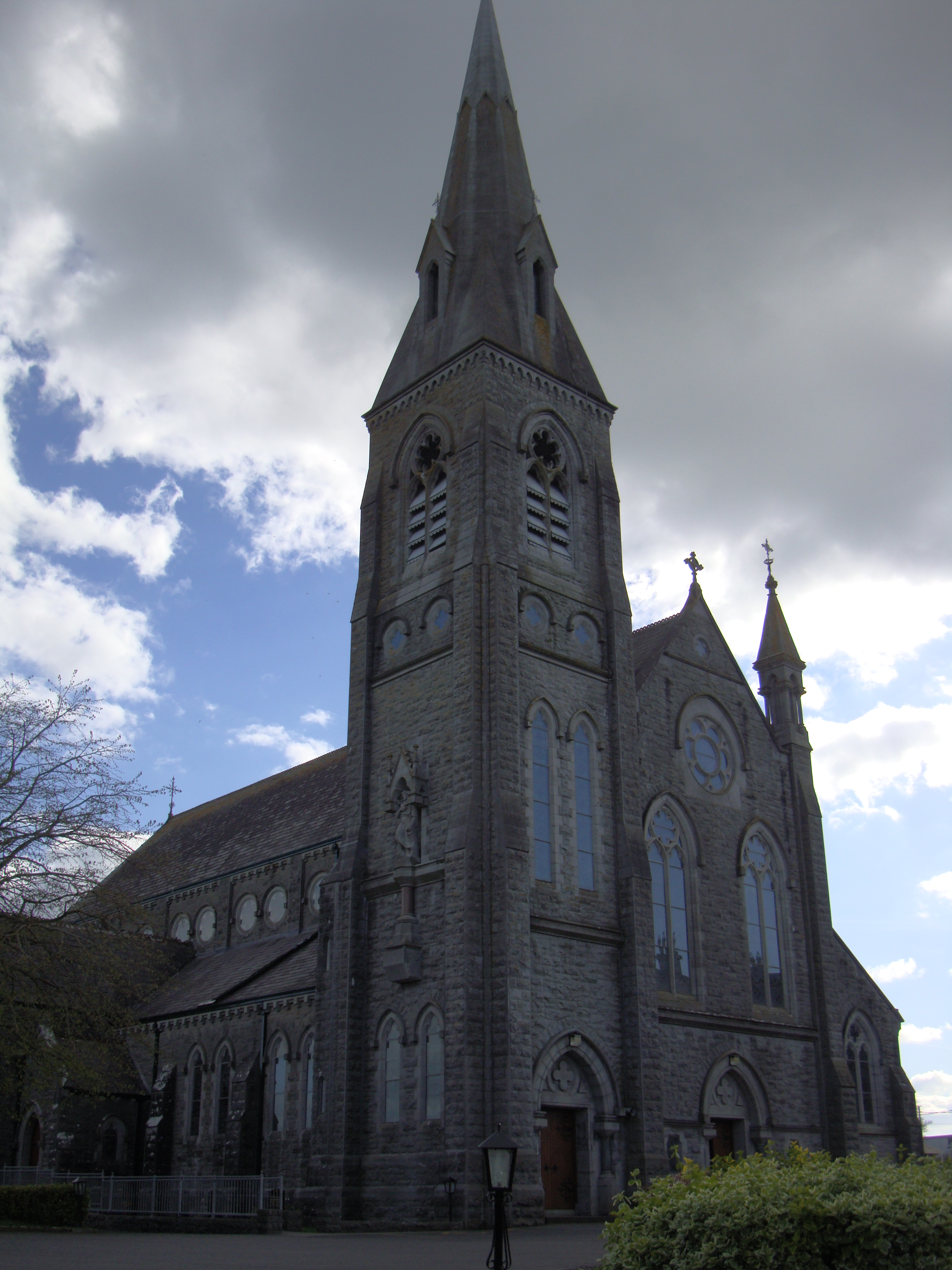 Photograph of Loughrea Cathedral, Co. Galway, Ireland